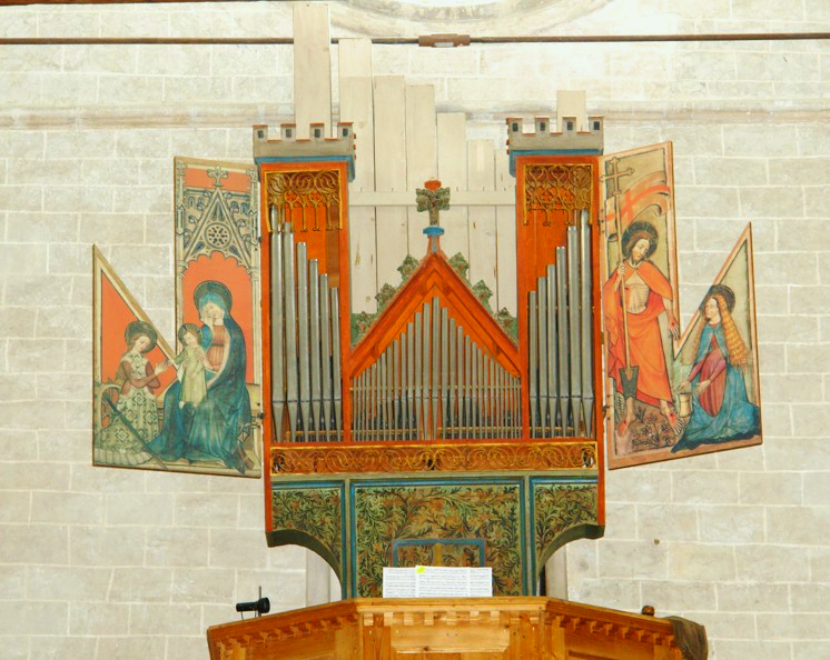 Organ church Notre-Dame-de-Valère about 1430 Sion / Switzerland